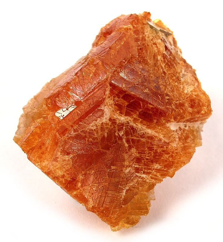 Johachidolite Locality: Pein Pyit (Painpyit), Mogok, Sagaing District, Mandalay Division, Burma (Myanmar) (Locality at ) Size: 3.5 x 3.0 x 1.6 cm. Johachidolite is a calcium aluminum borate and this specimen is an incredible rarity of size and stature that makes it among the more important rare species specimens from this part of the world. This crystal is exceptionally large. Ex. William Larson Collection.